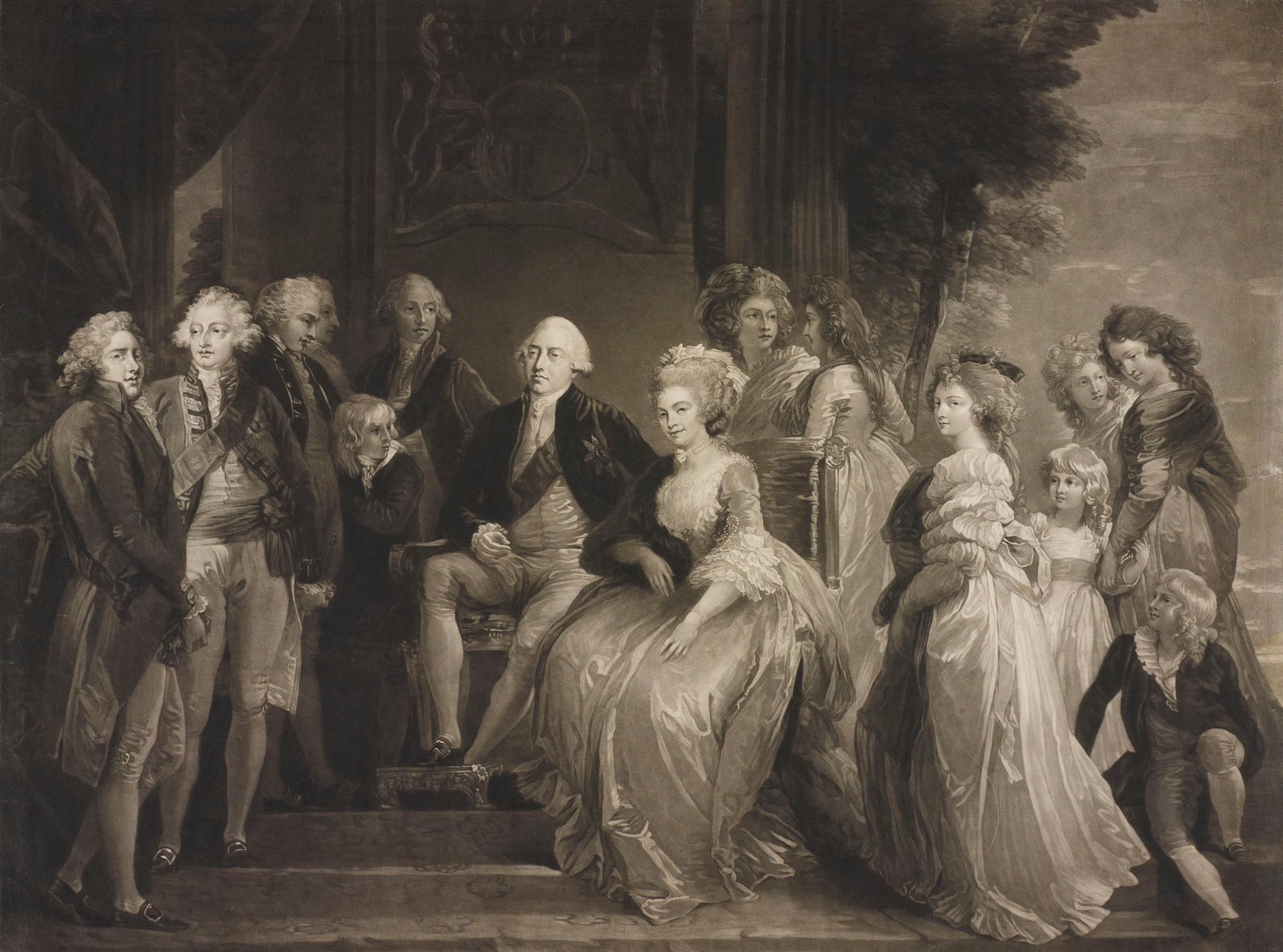 George III and Queen Charlotte with their thirteen children